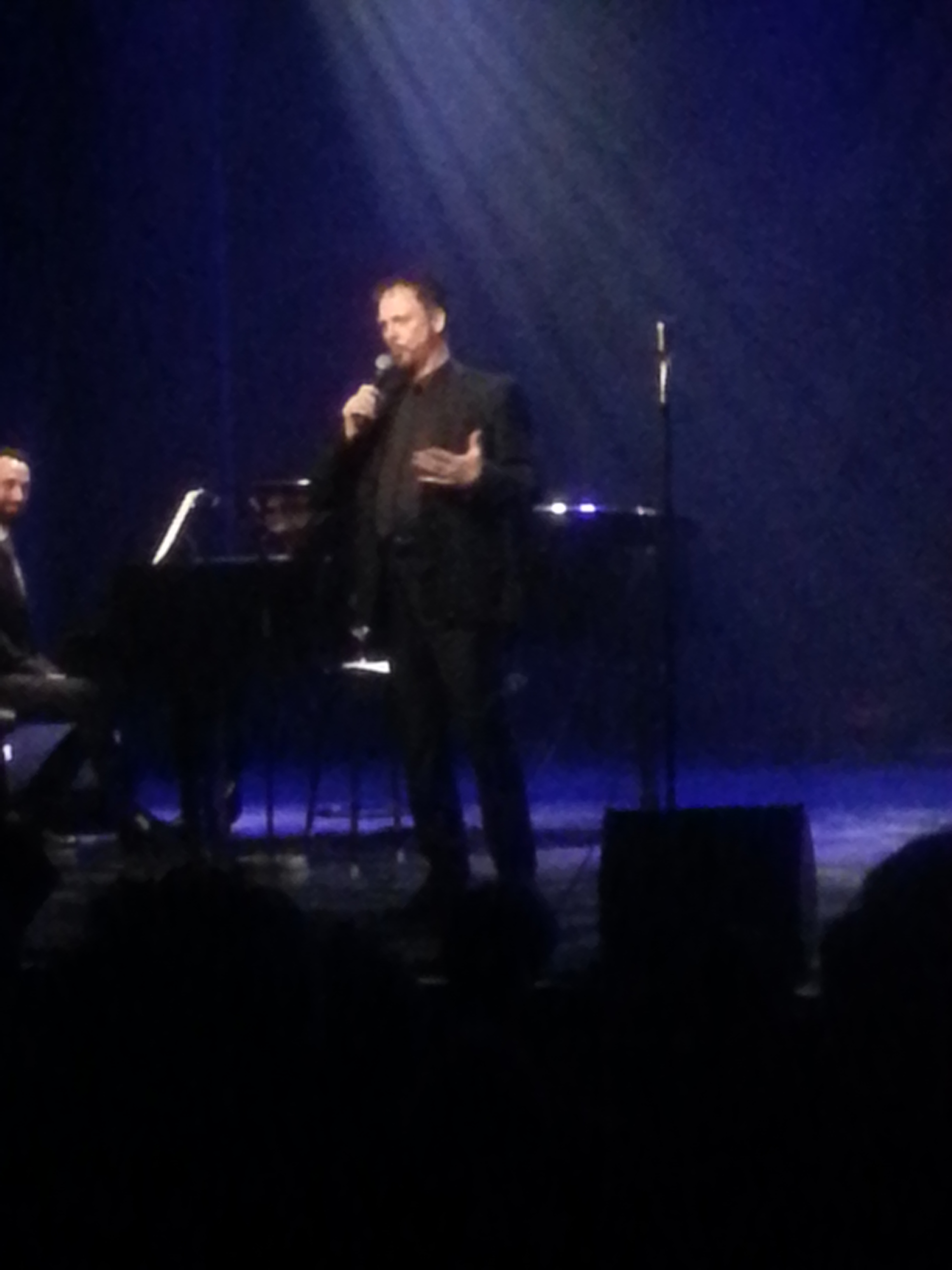 Gino Quilico photographed in Montreal, Quebec, Canada.